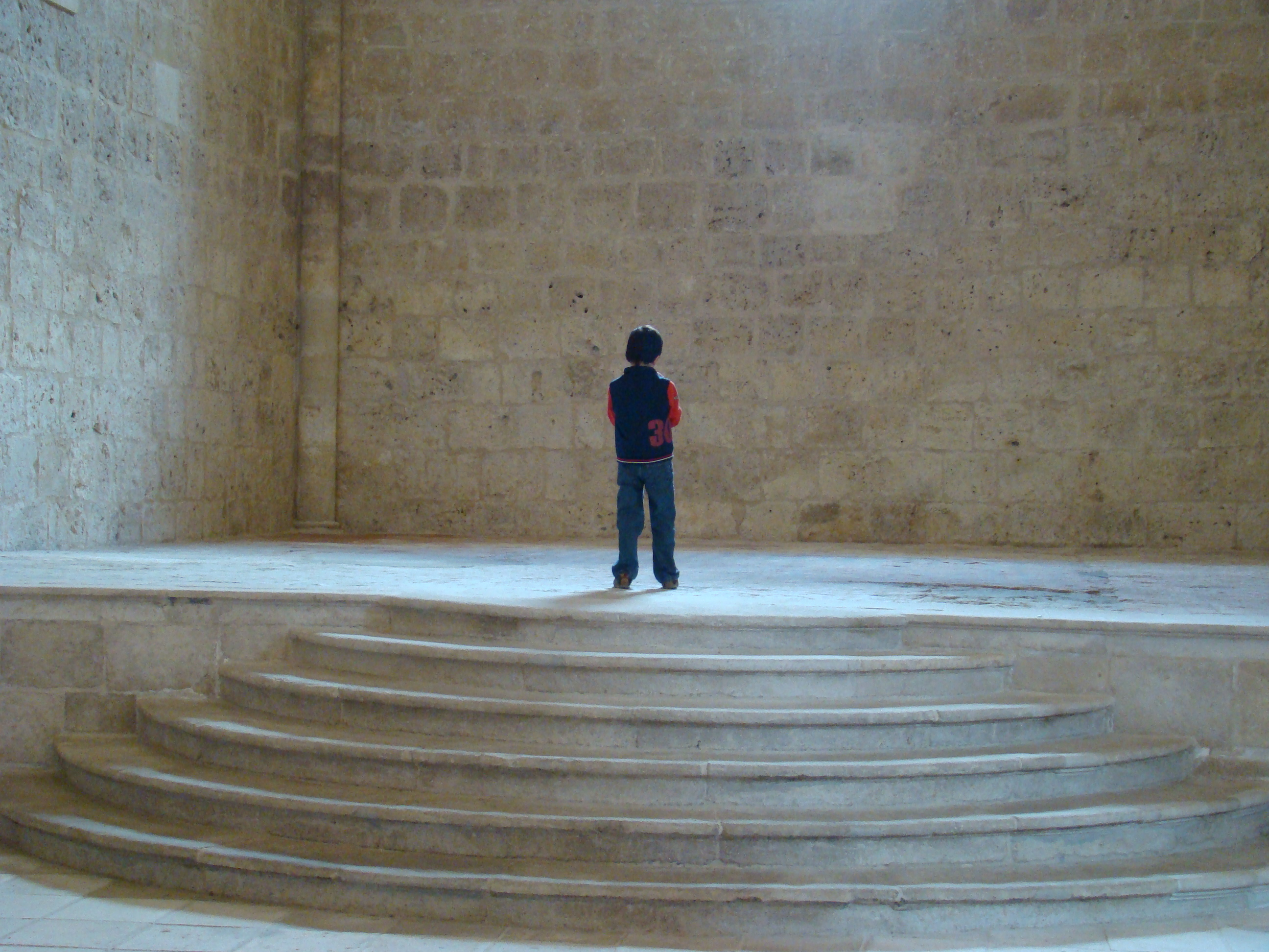 Inside the church of the monastery of Santa María de Retuerta (province of Valladolid). Stairs in the area where the choir was located. This is a monastery which belongs to the premonstratensian order, built in late romanic style and founded by Sancho Ansúrez, count Ansúrez's grandson.